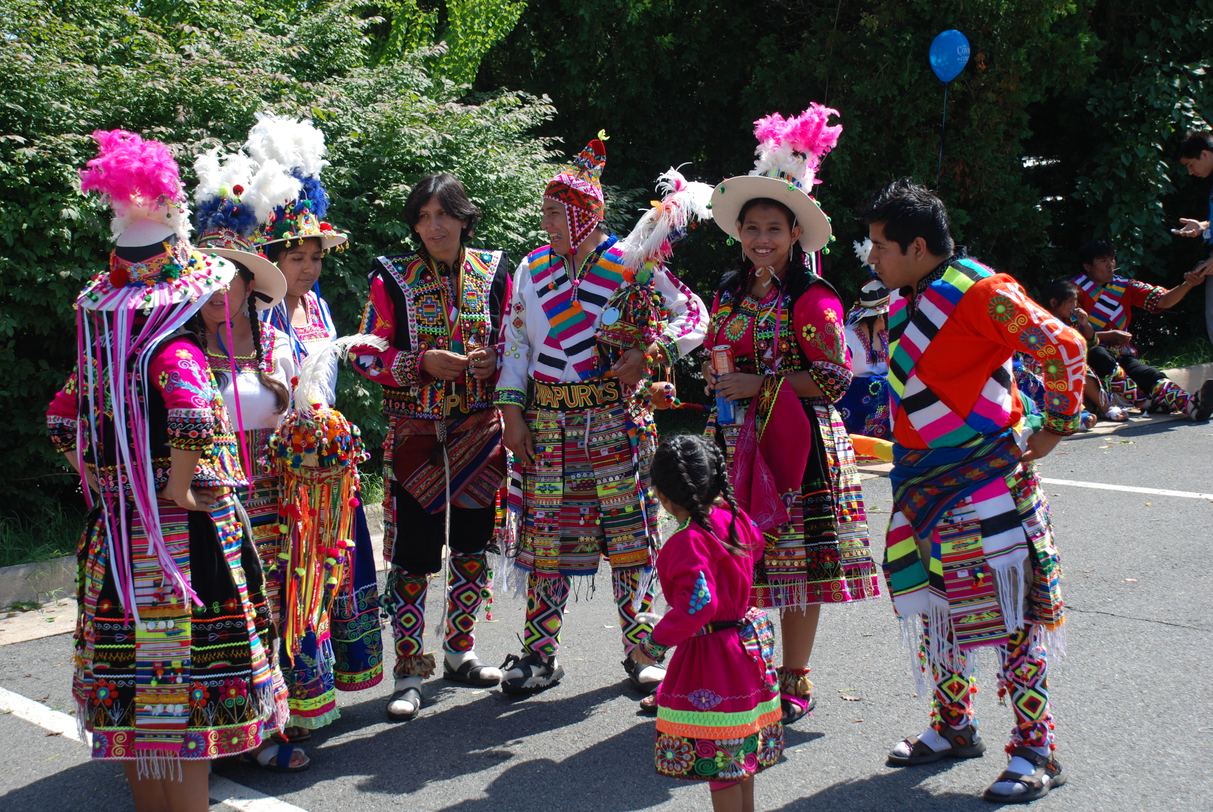 Tinkus Wapurys dancers at Fairfax City 4th of July Parade